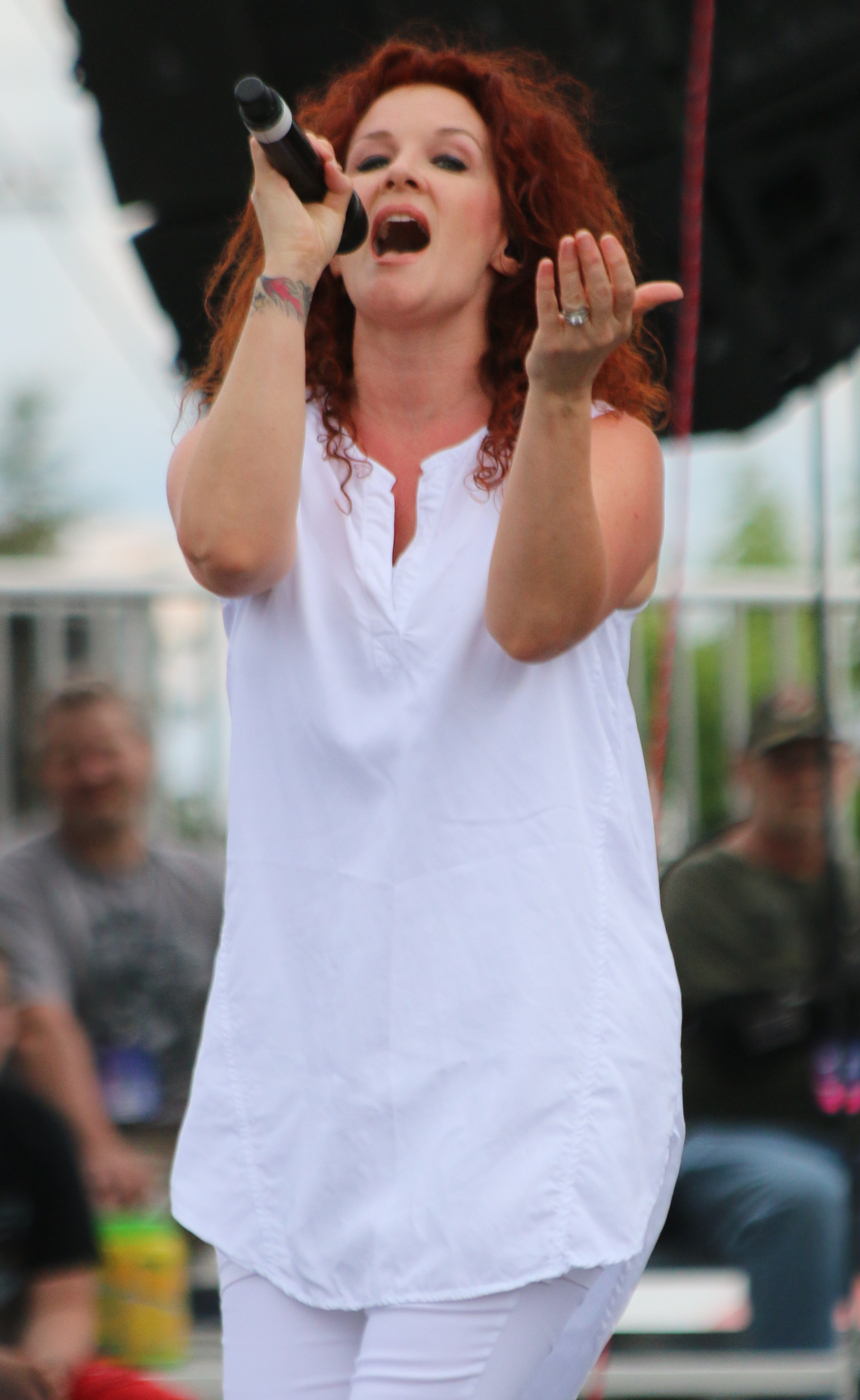 The singer Plumb performing at Lifest.